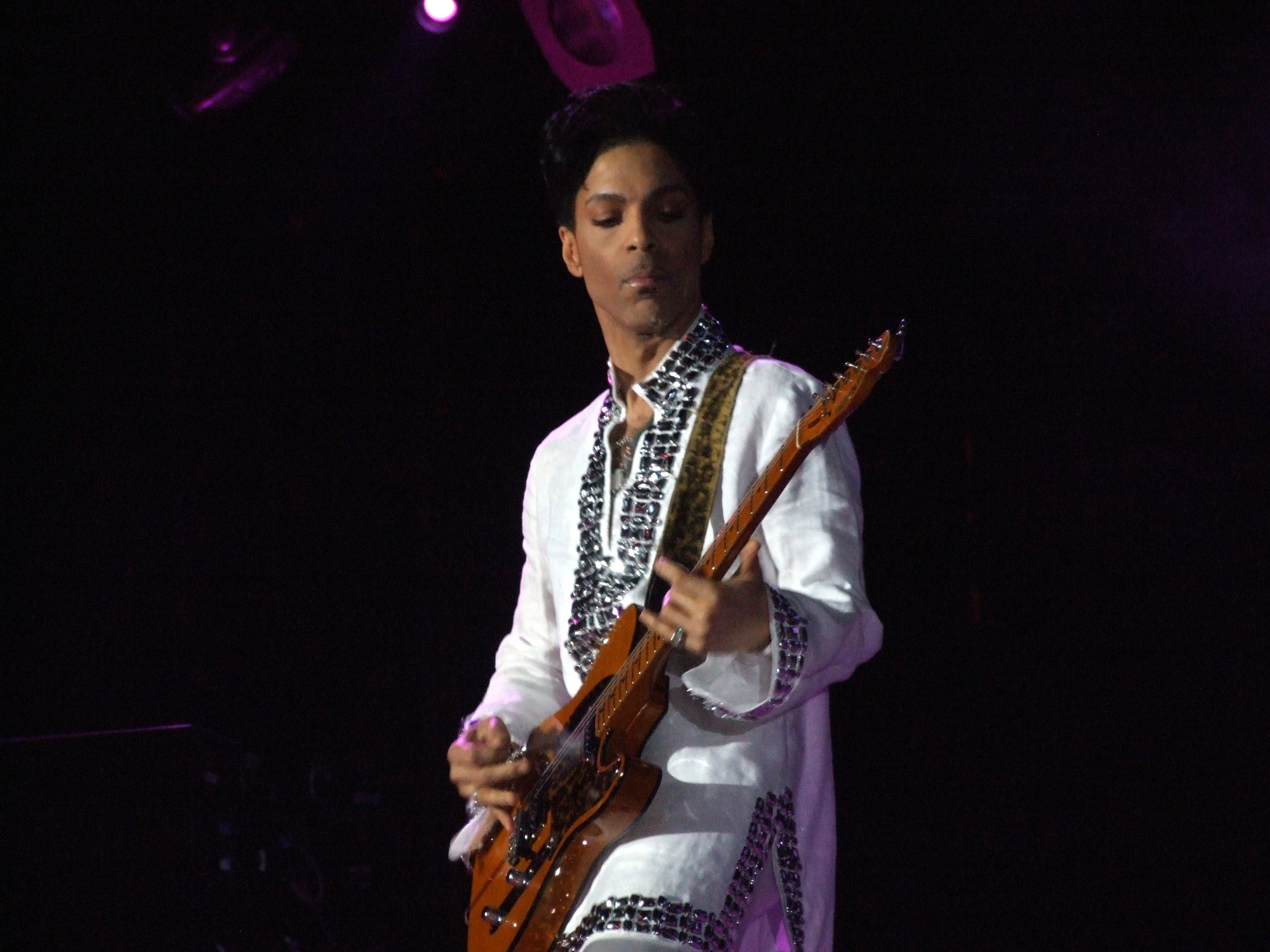 Prince playing at Coachella 2008.